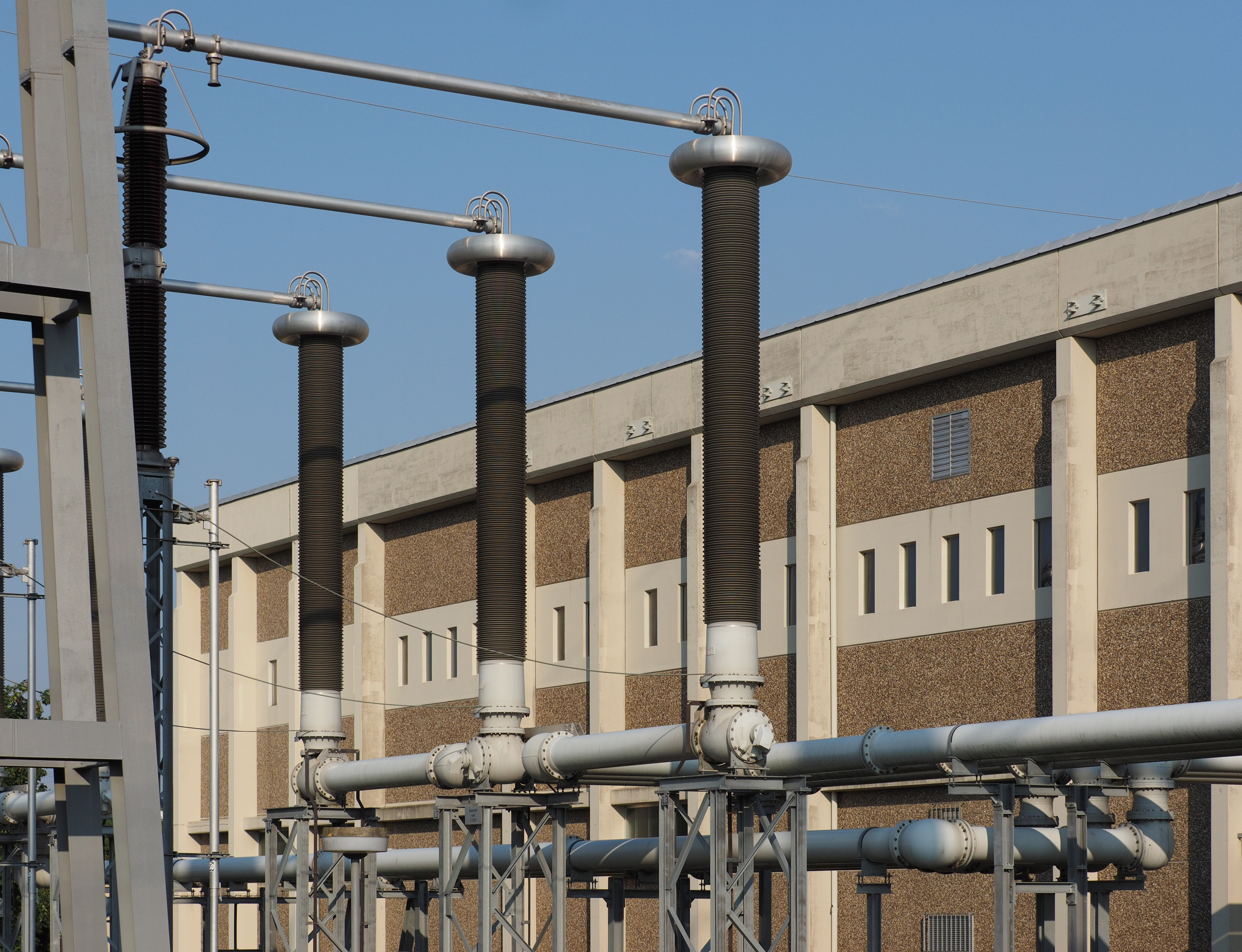 Change over from a overhead powerline to a SF6 gas insulated high voltage line at Leingarten substation, Germany